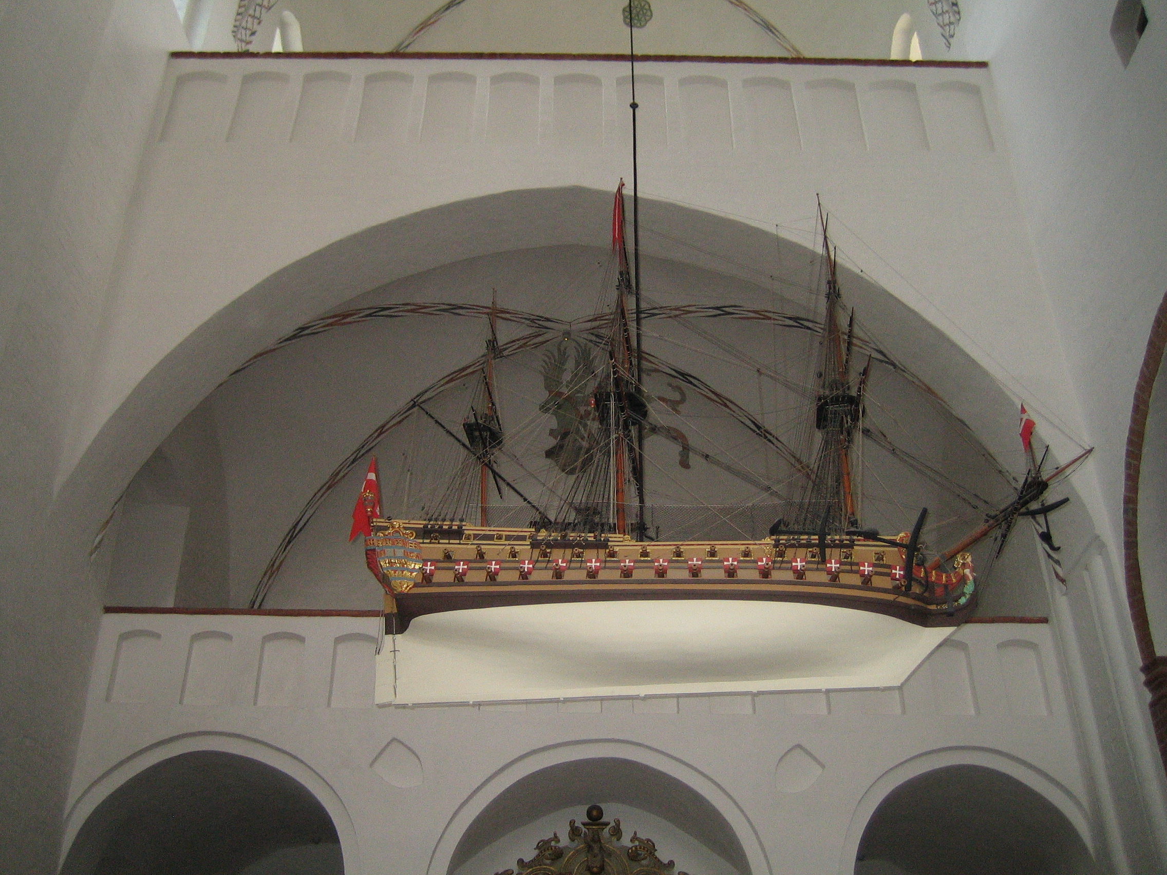 A model ship exhibited inside the Aarhus Cathedral, which is dedicated to the patron saint of sailors, St. Clemens.